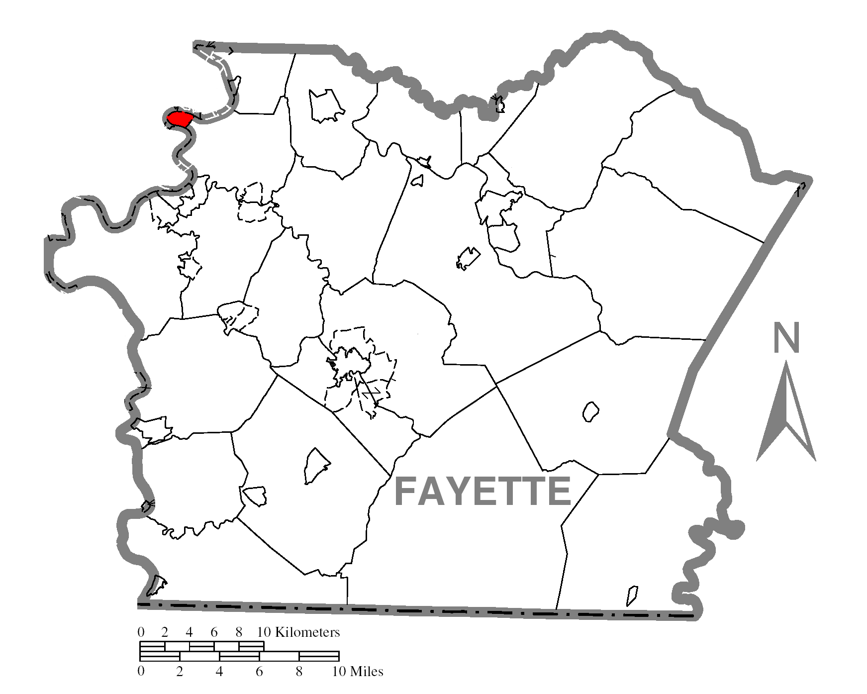 Map of Fayette County higlighting Newell.